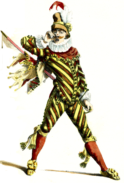 Capitano Spavento, a commedia dell'arte role created by Francesco Andreini, as imagined by Maurice Sand